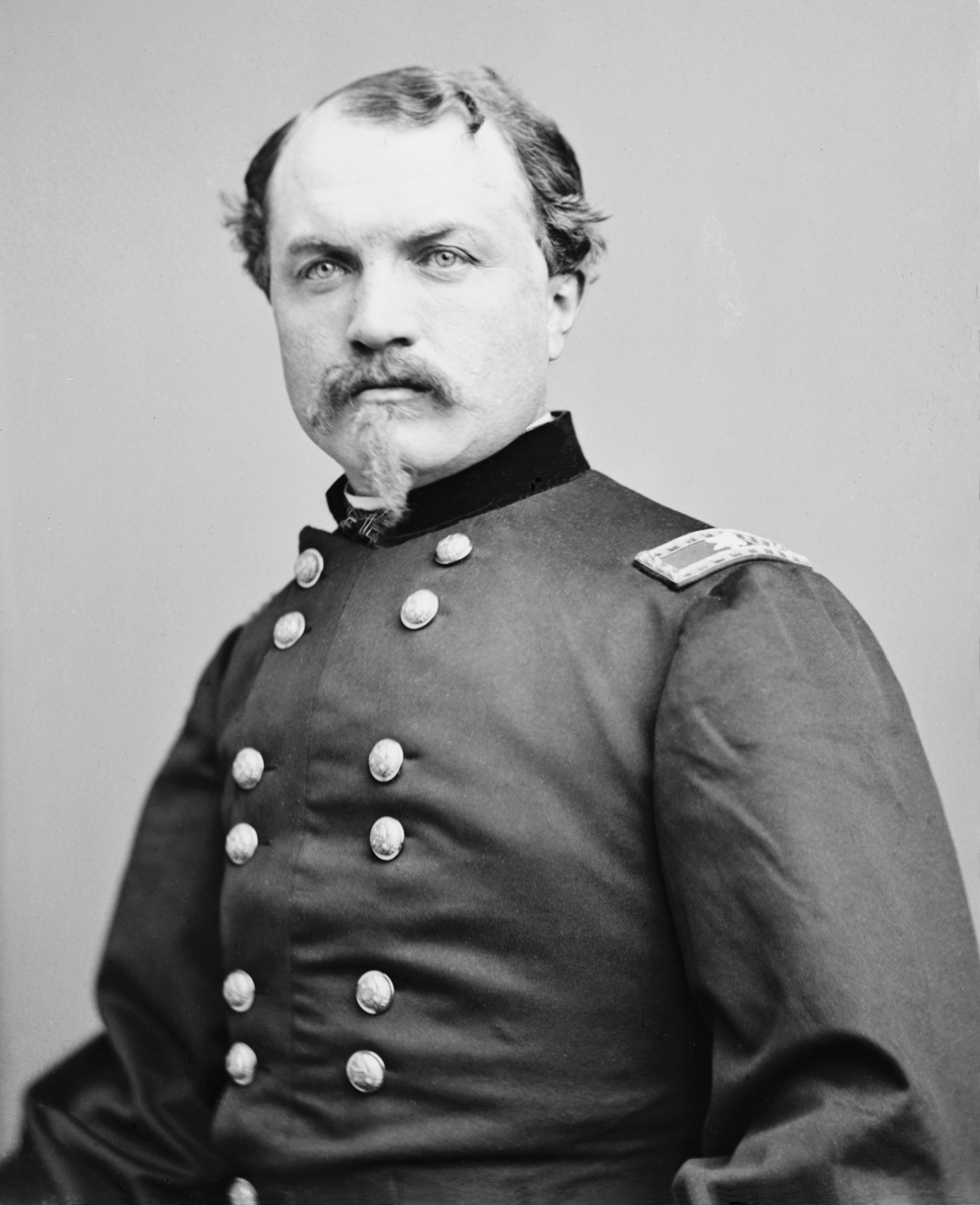 William Woods Averell (1832–1900) was a United States Army officer and a cavalry general in the American Civil War. After the war he was a diplomat and became wealthy by inventing American asphalt pavement.